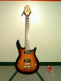 Leakesville Soapbar Firenza in Tobacco Sunburst